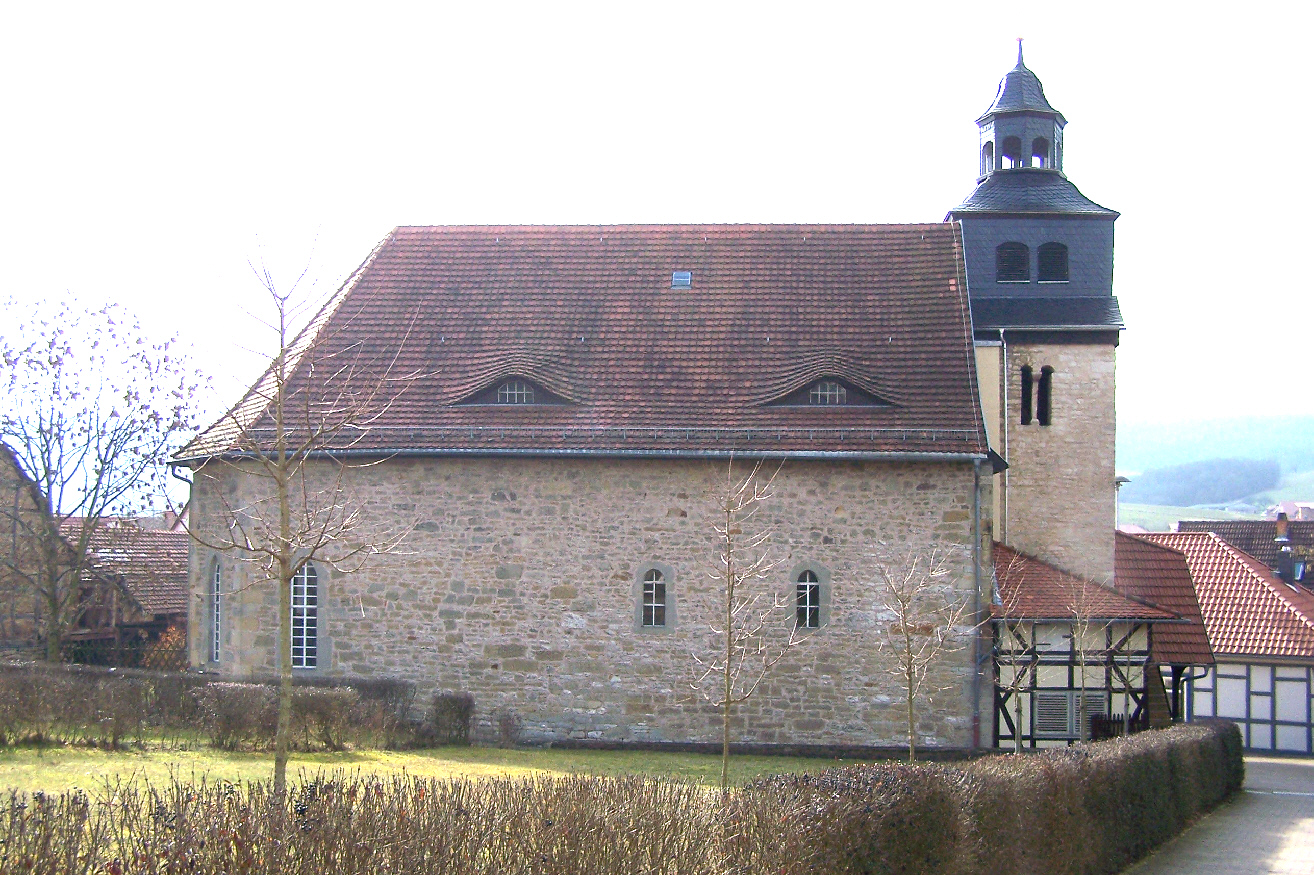 Details at the belltower at the church in Ifta.